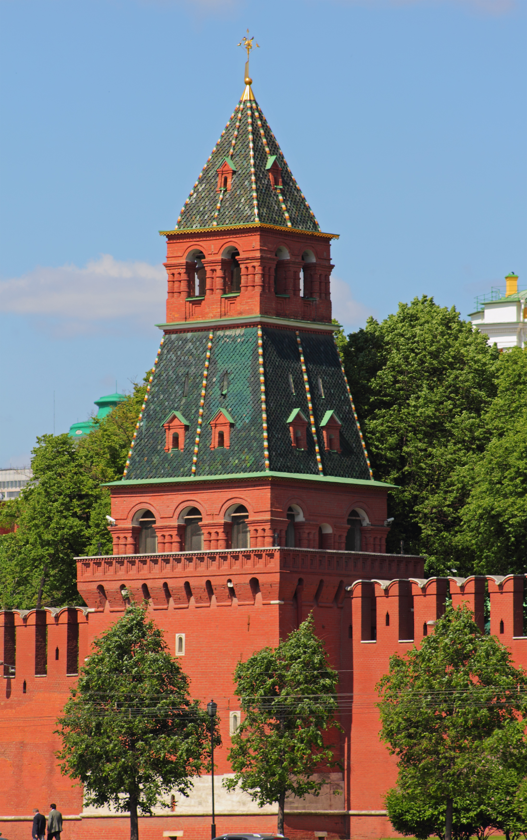 Moscow, Russia. Blagoveschenskaya (Annunciation) Tower of the Moscow Kremlin.